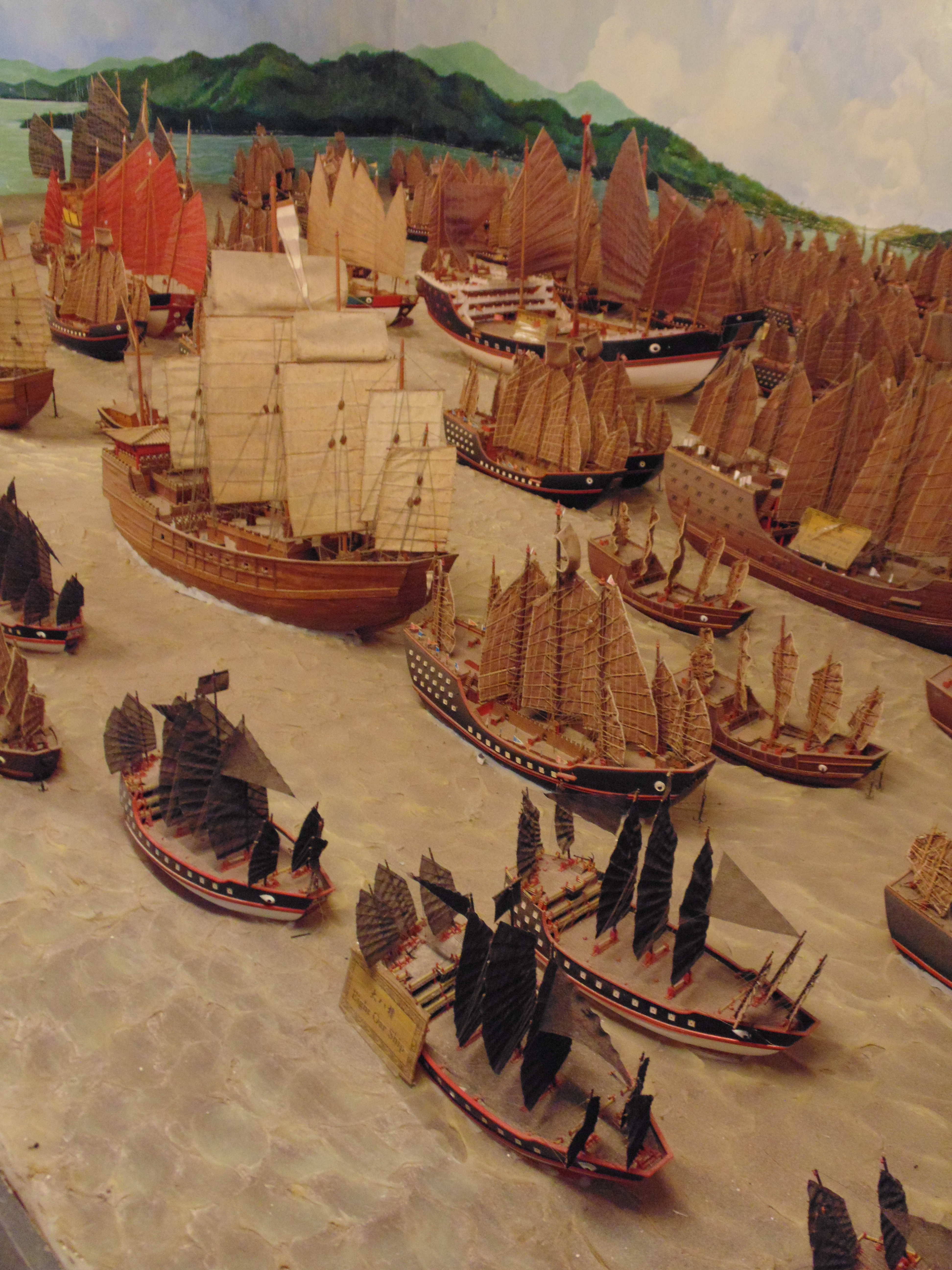 Cheng Ho Cultural Museum - Exhibition